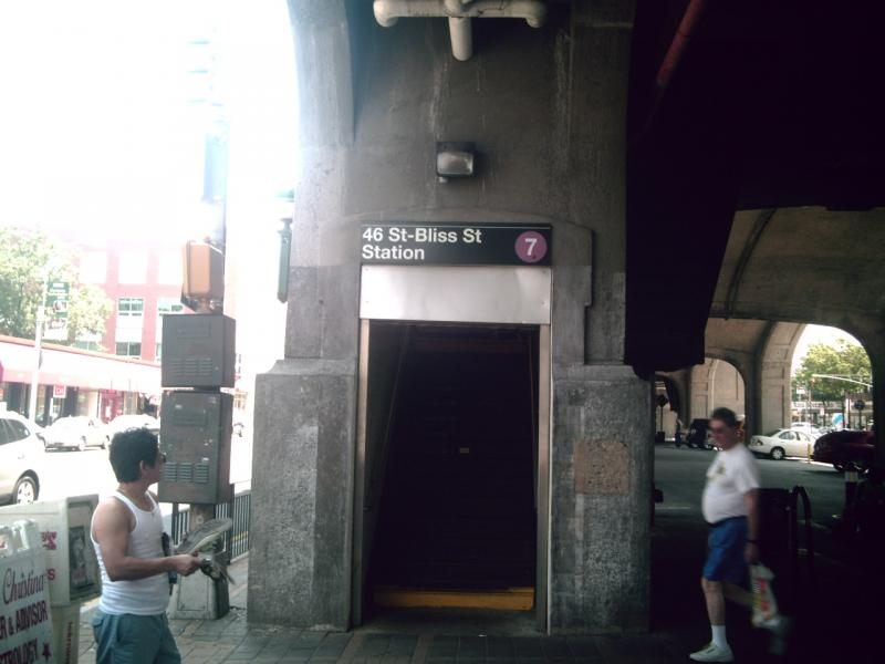 Entrance to 46th-Bliss Streets Station.